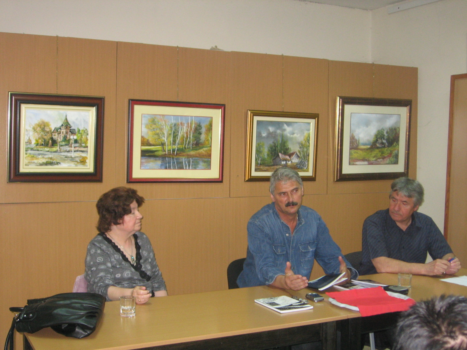 Júlia Pásty Hungarian authoress